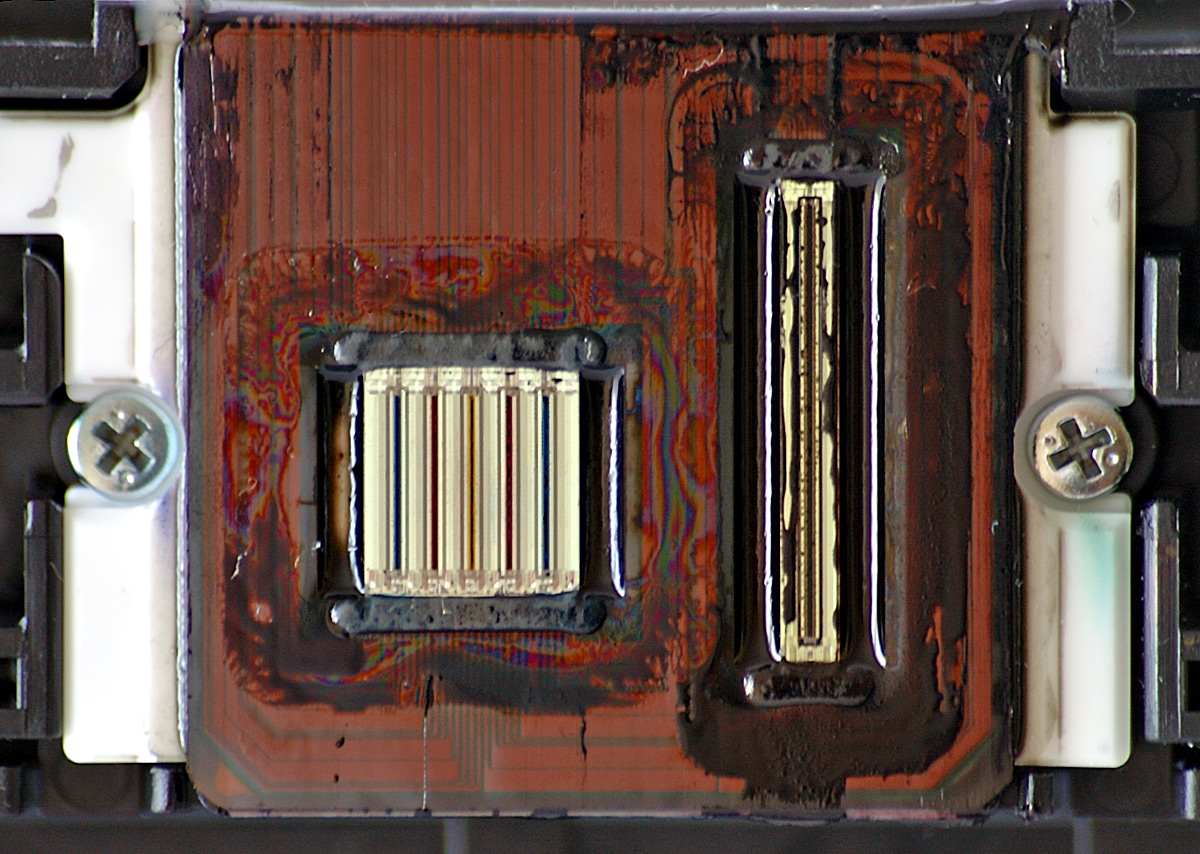 This image shows a print head of a Canon S520 ink jet printer.